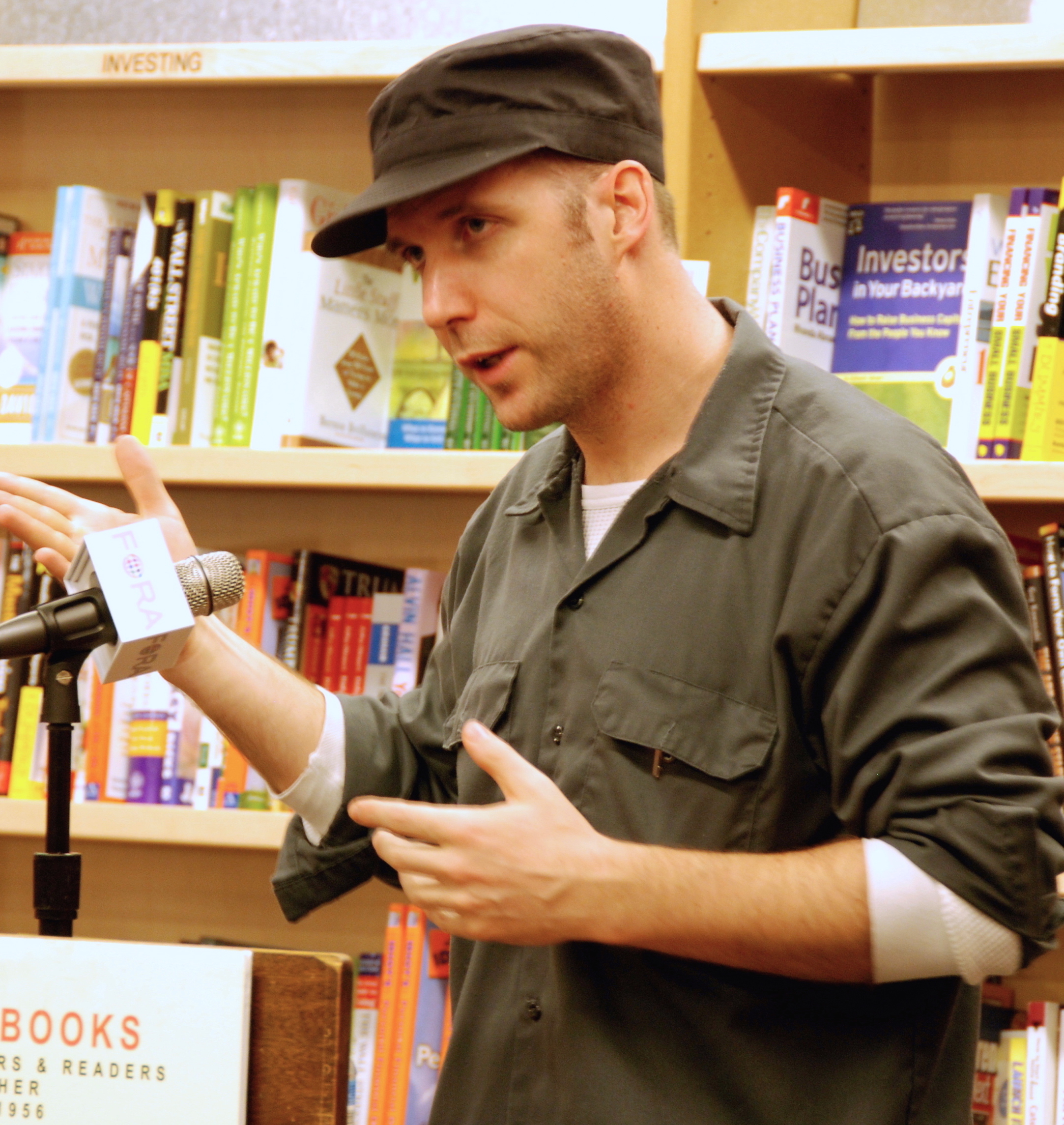 Michael Arndt, who wrote Little Miss Sunshine and is writing Toy Story 3, spoke at Cody's Books, Berkeley, California, about his script which has been published.